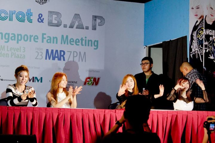 South Korean band Secret in Singapore